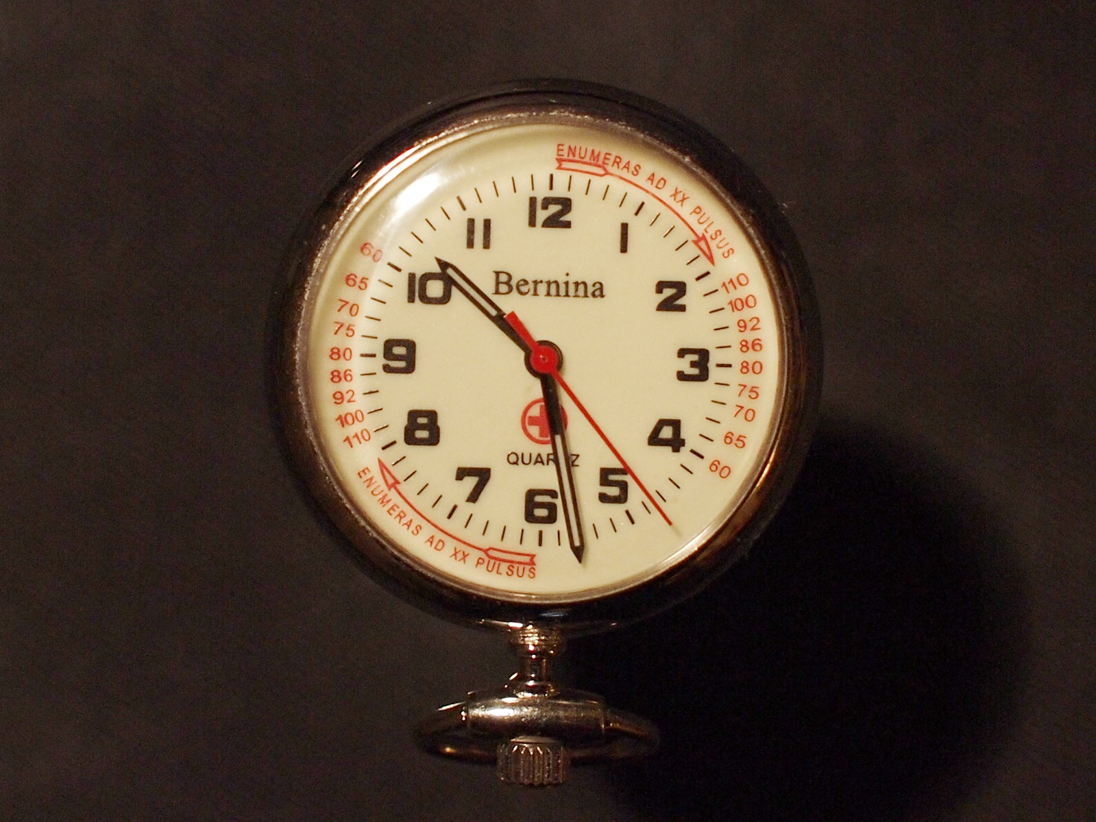 Bernina Nurse Watch